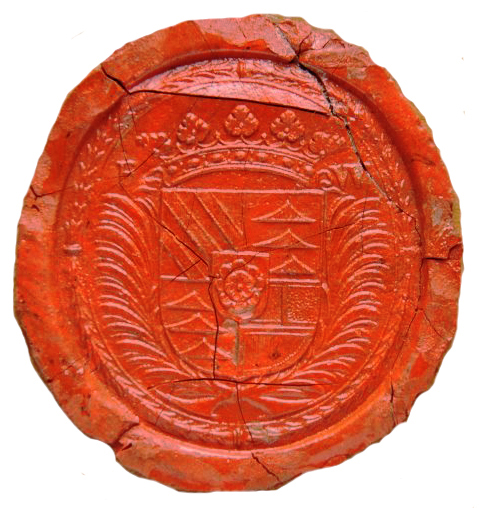 Austrian politician of the Thirty Years' War era.